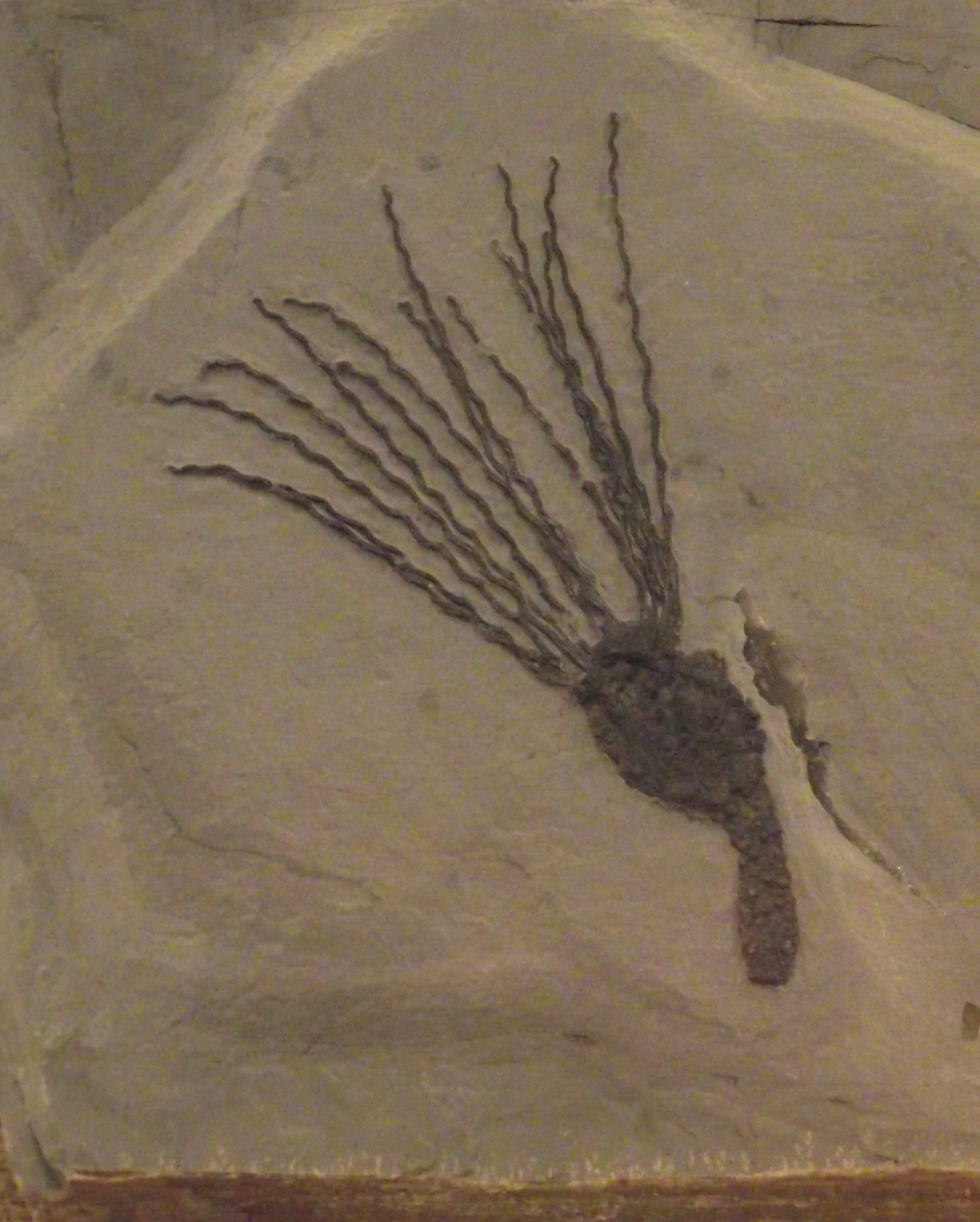 Gogia spiralis fossil from Antelope Springs, Utah, on display at the San Diego County Fair, California, USA.